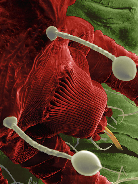 Raoiella_indica_-_red_palm_mite_head taken with low-temperature scanning electron micrograph